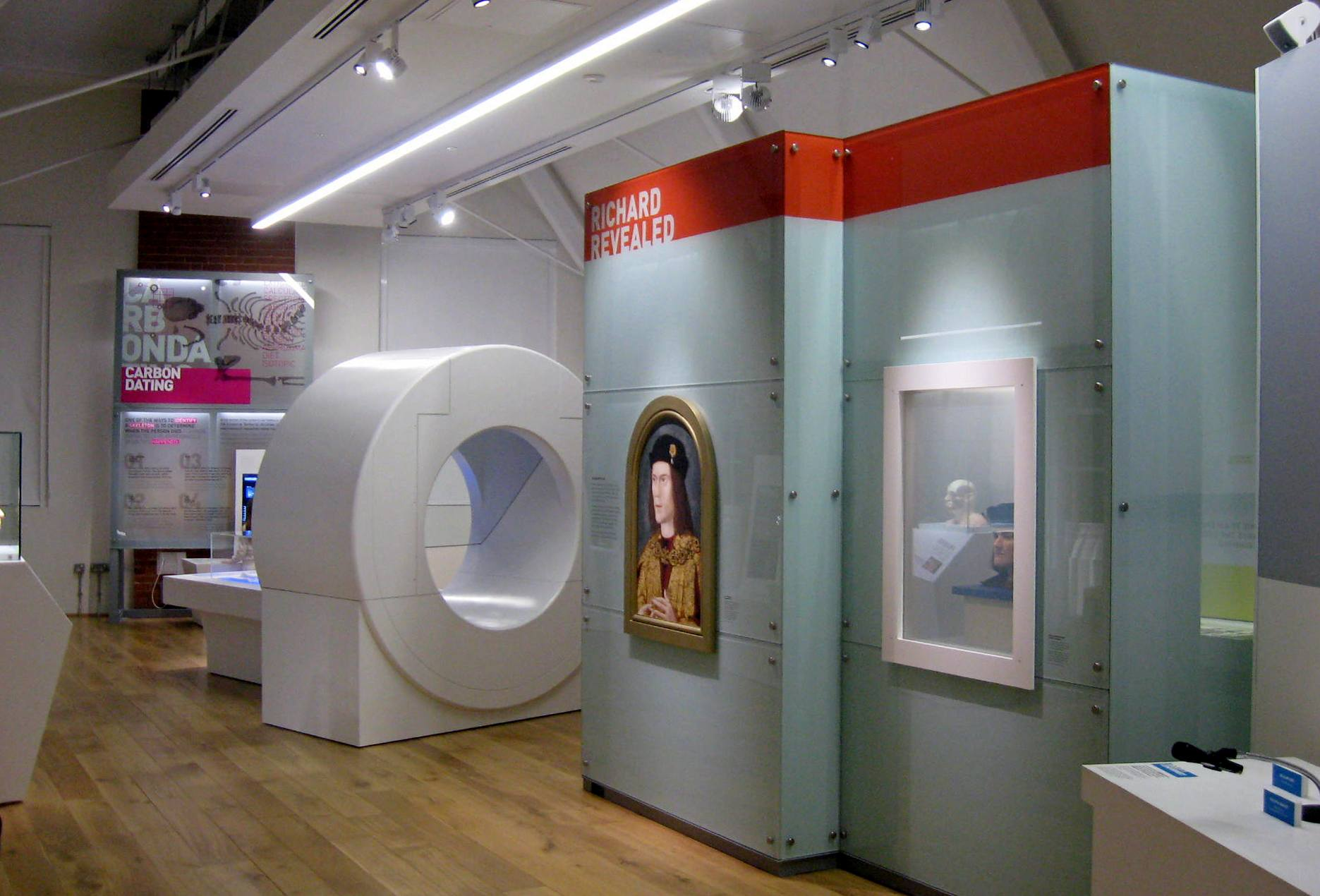 Dynasty, Death and Discovery, Upstairs gallery of the Leicester Richard III museum.